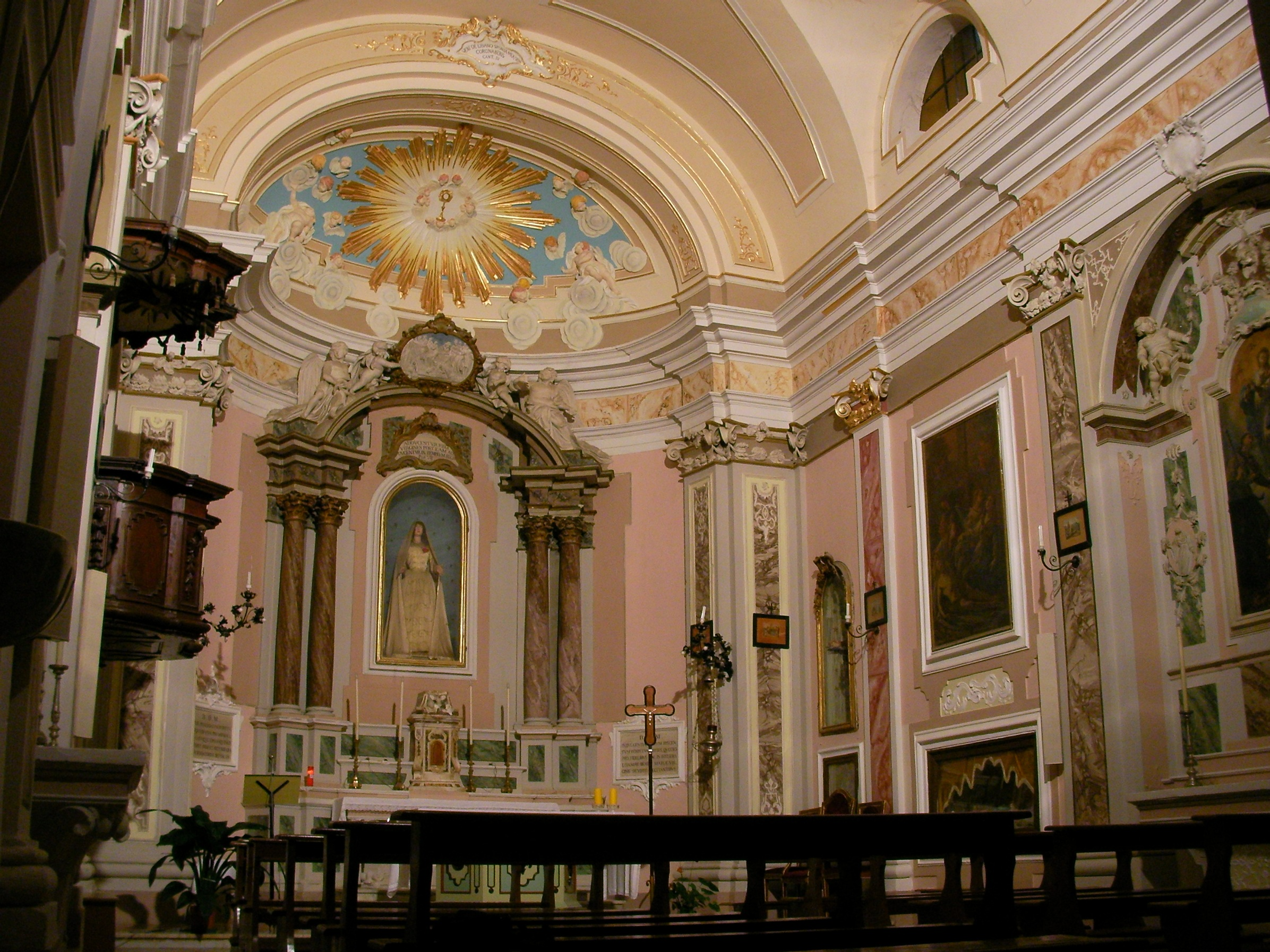 The interior of the church of Santa Chiara in Guardiagrele, in the province of Chieti, Abruzzo